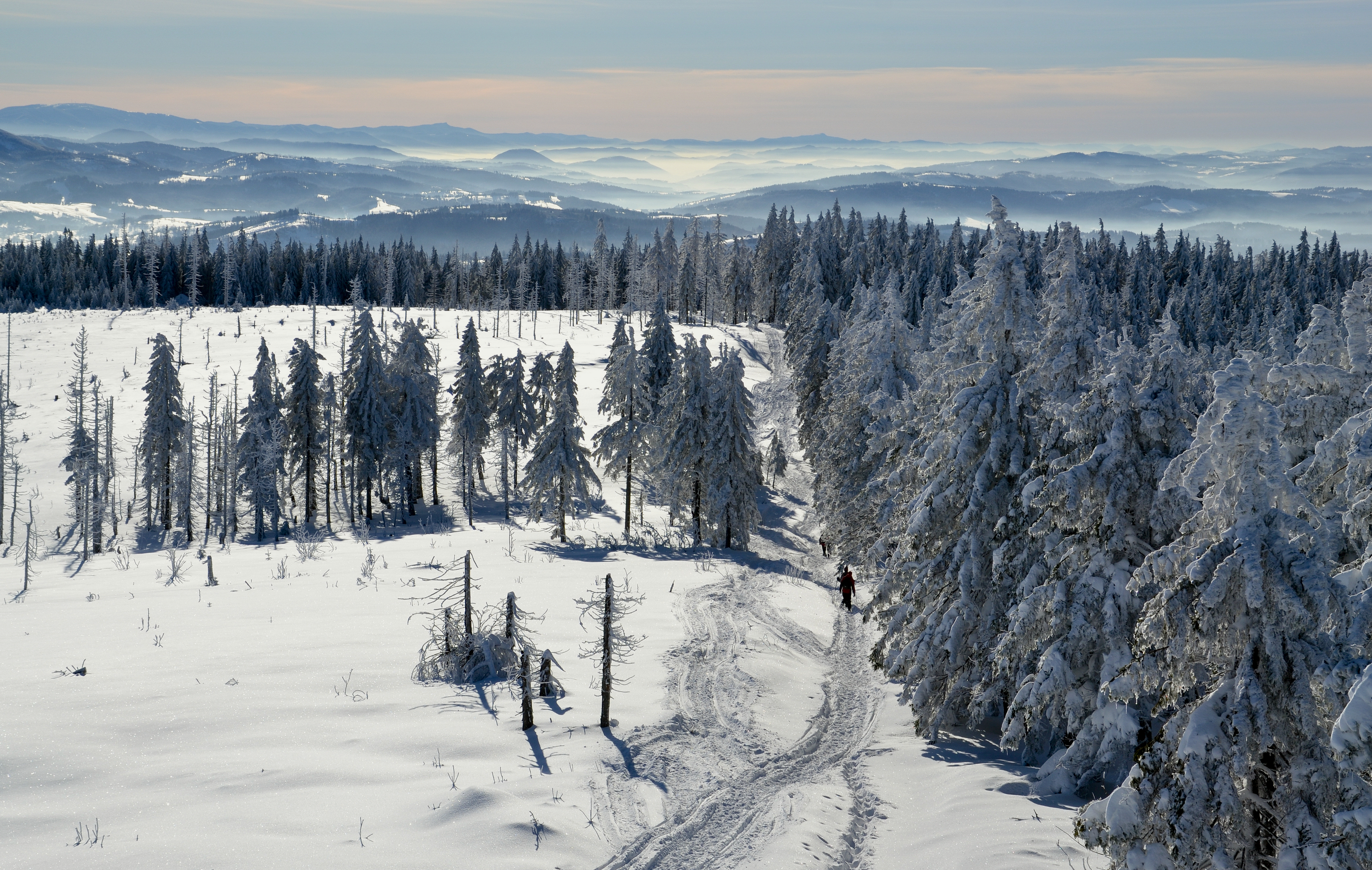 View from Barania Góra tower, Beskid Śląski mountains, Silesia, Poland.